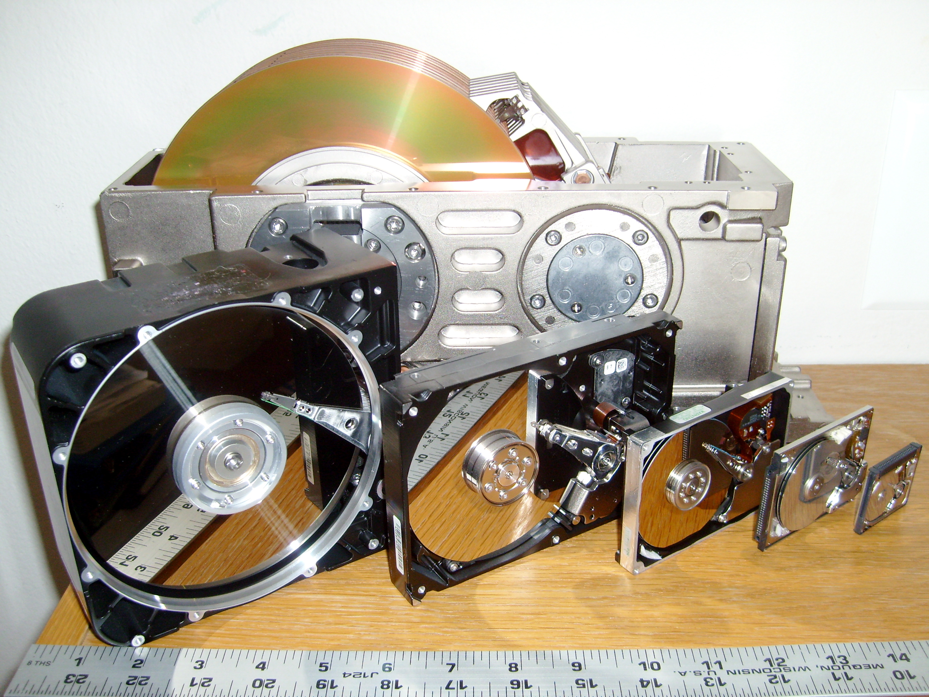 Six hard disk drives with cases opened showing platters and heads; 8, 5.25, 3.5, 2.5, 1.8 and 1 inch disk diameters are represented.